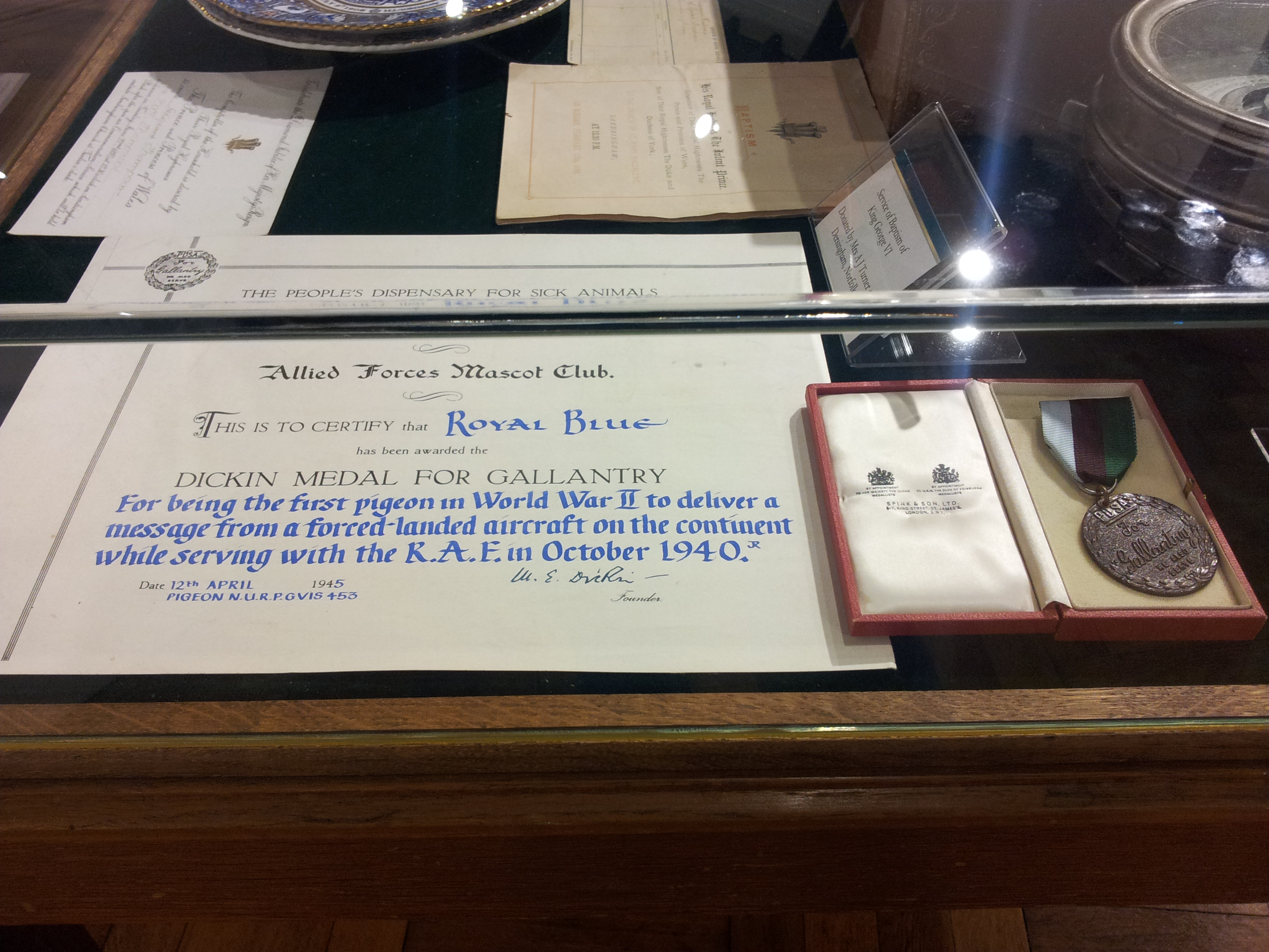 The Dickins Medal for the pigeon Royal Blue